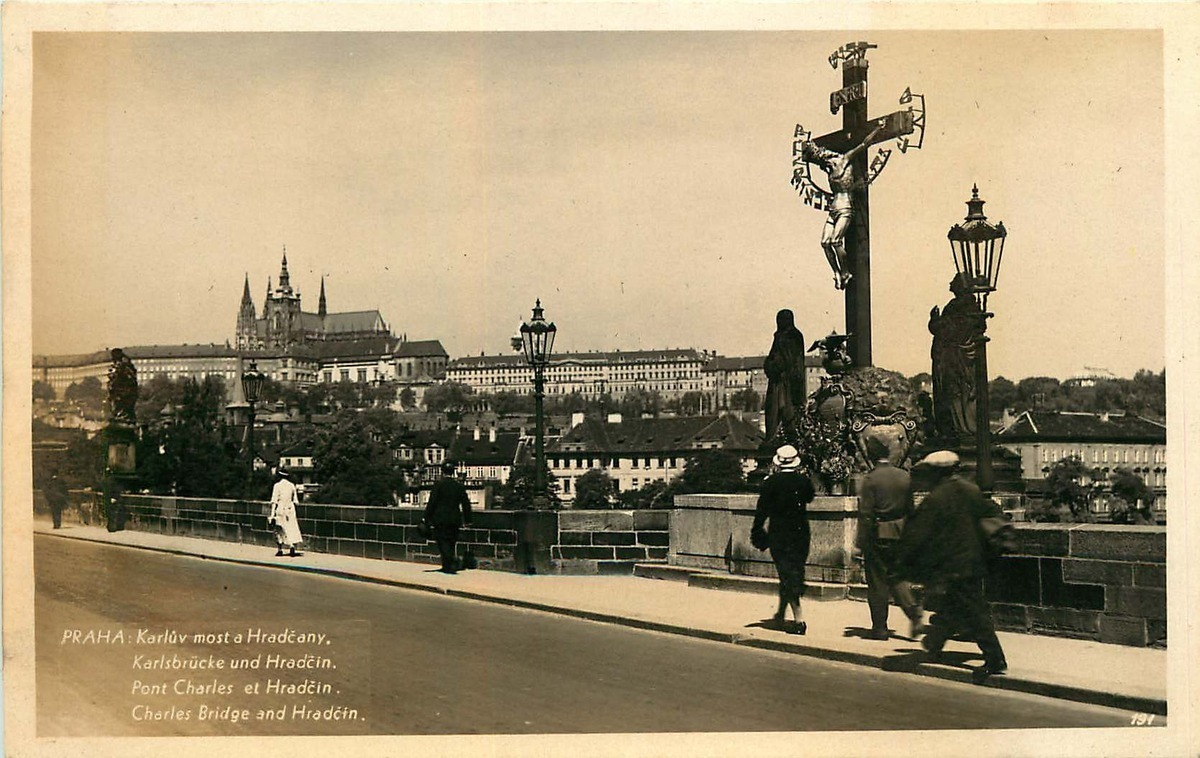 Charles Bridge and Prague Castle in the mid-1930s. Contemporary postcard.